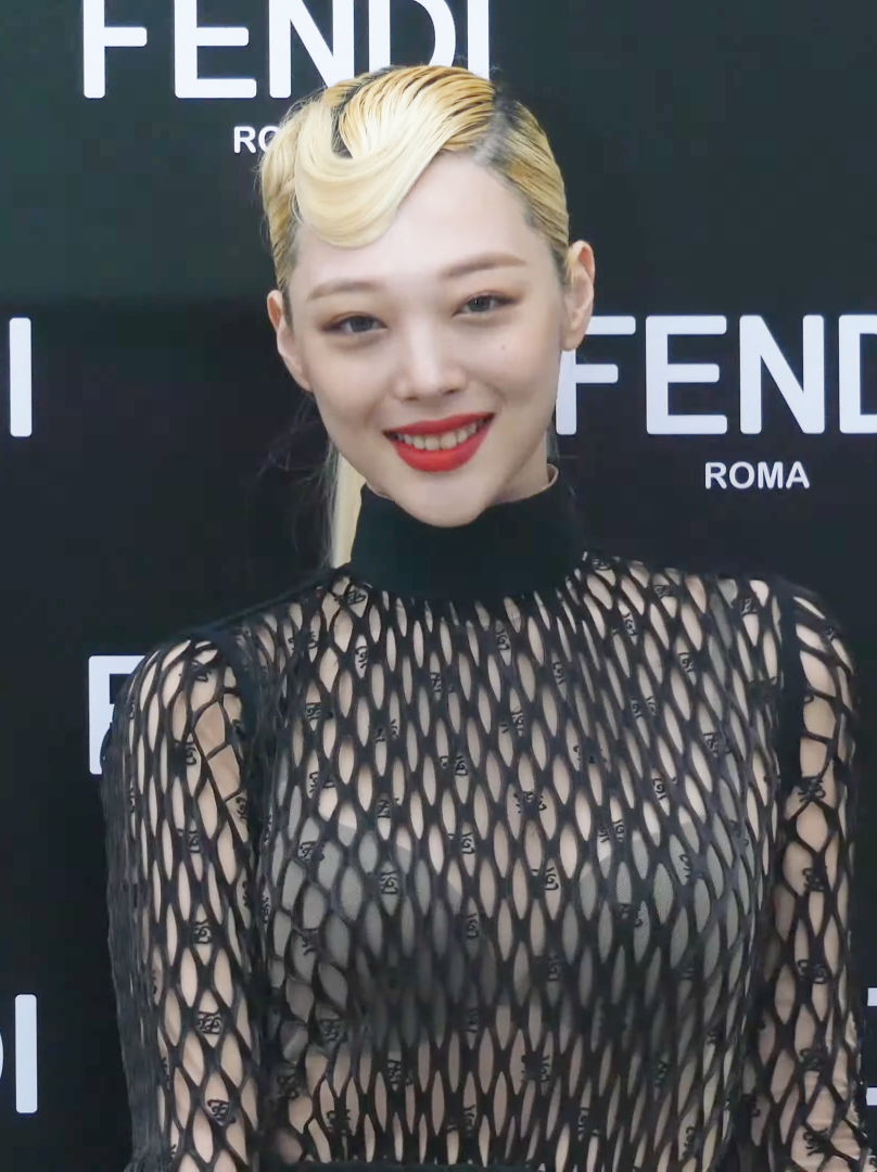 Sulli during FENDI 2019 F/W Collection Pop-Up Store Opening Event, held in Gangnam-gu, Seoul, September 3, 2019.